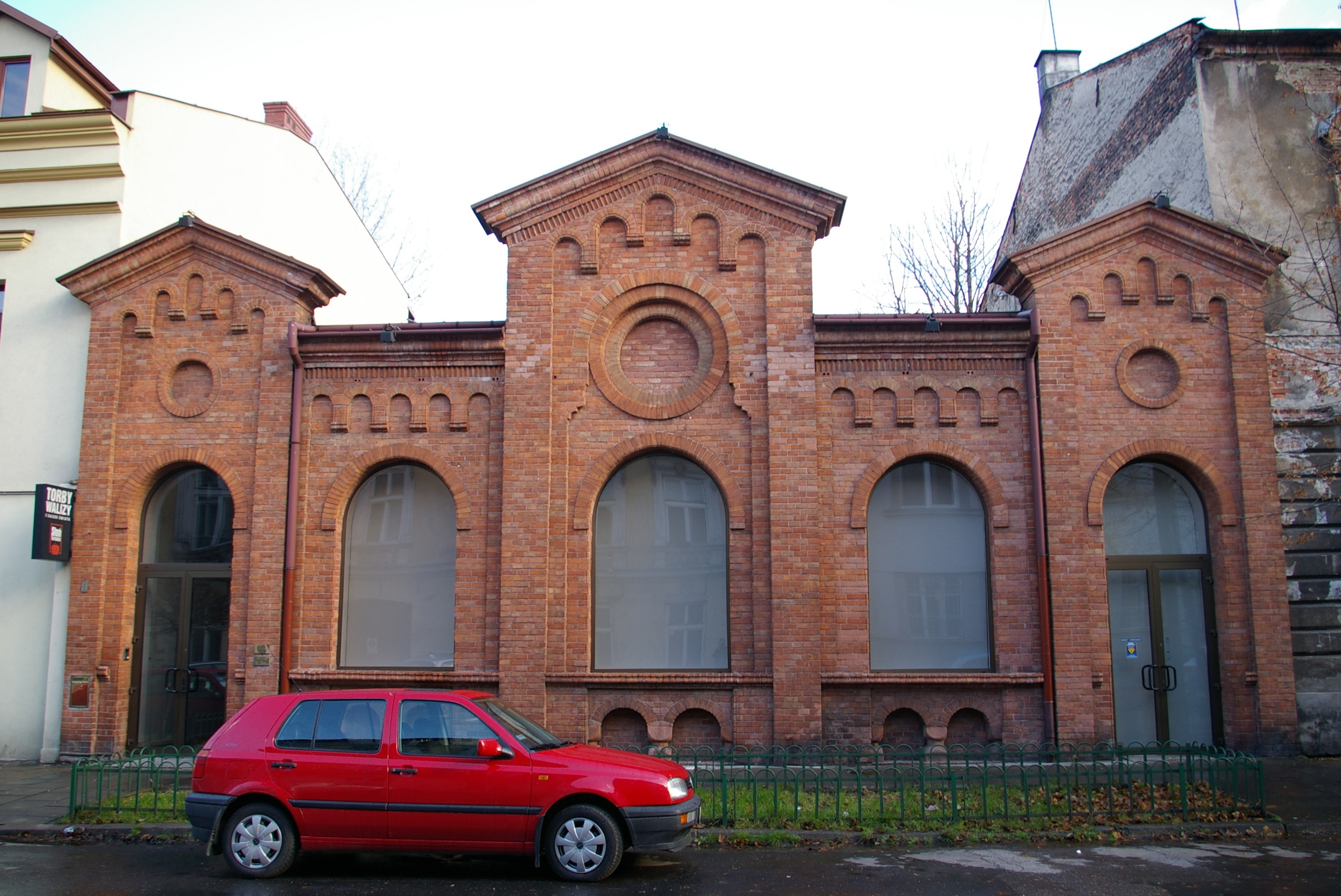 Zucker Synagogue in Kraków